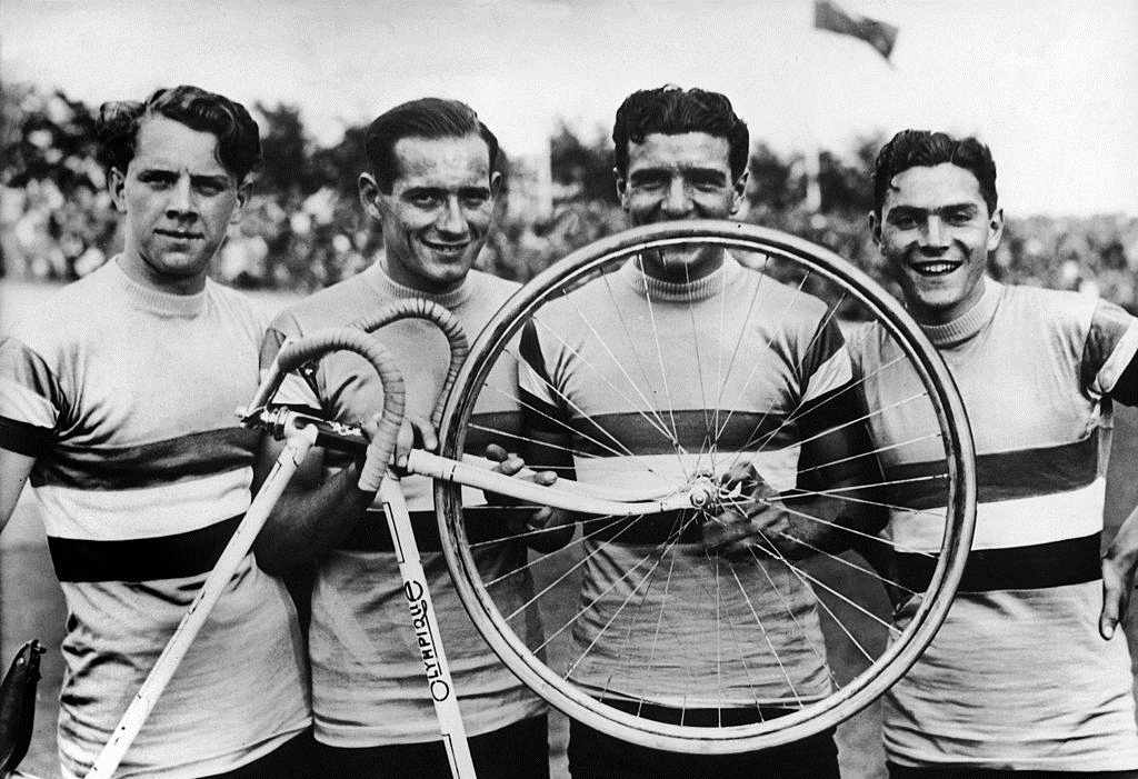 The Racing Cyclists Robert Charpentier, Guy Lapebie, Jean Goujon And Roger Le Nizerhy Just After Having Won The Team Race At The Olympic Games Of Berlin In August 1936.